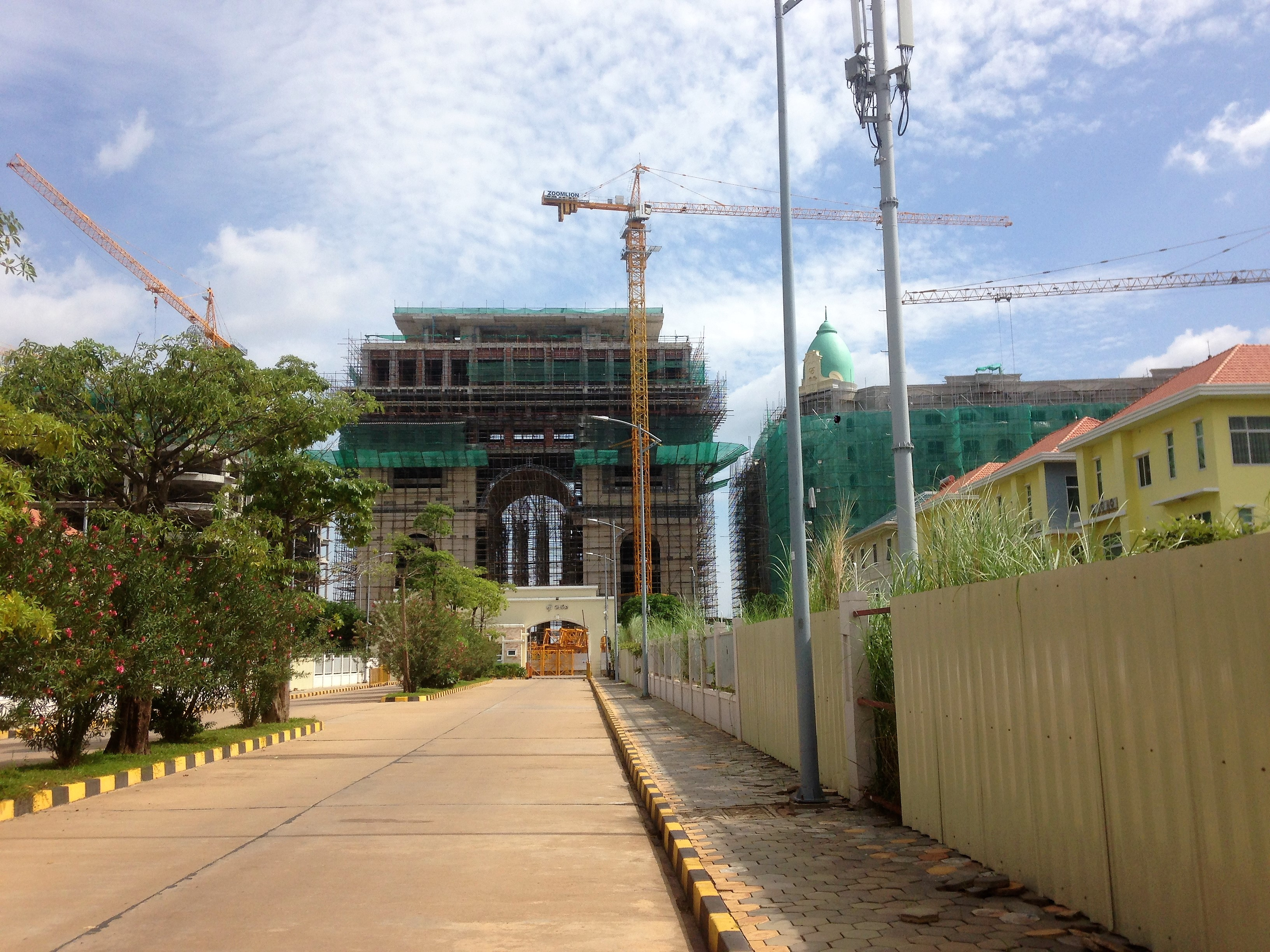 The Koh Pich Arch (Phnom Penh), under construction